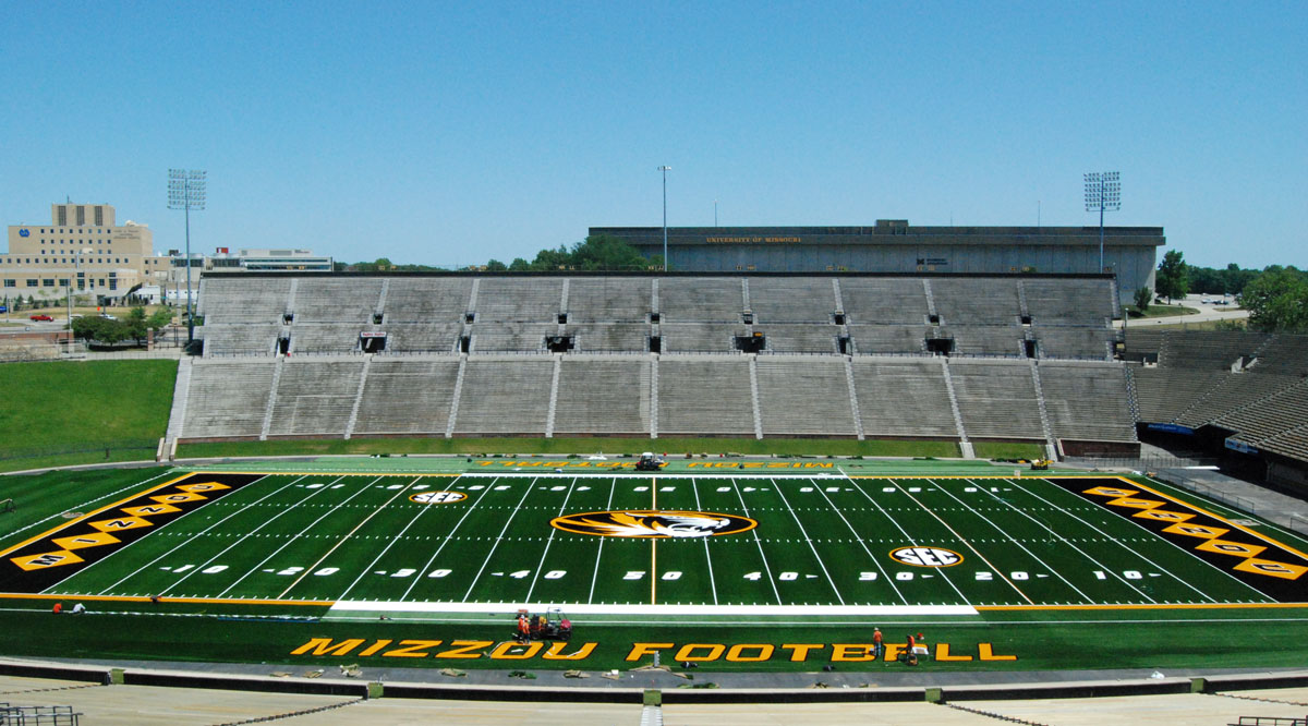 Image of the redesigned surface of Faurot Field as of the 2012 season as seen from the press box side of the field.